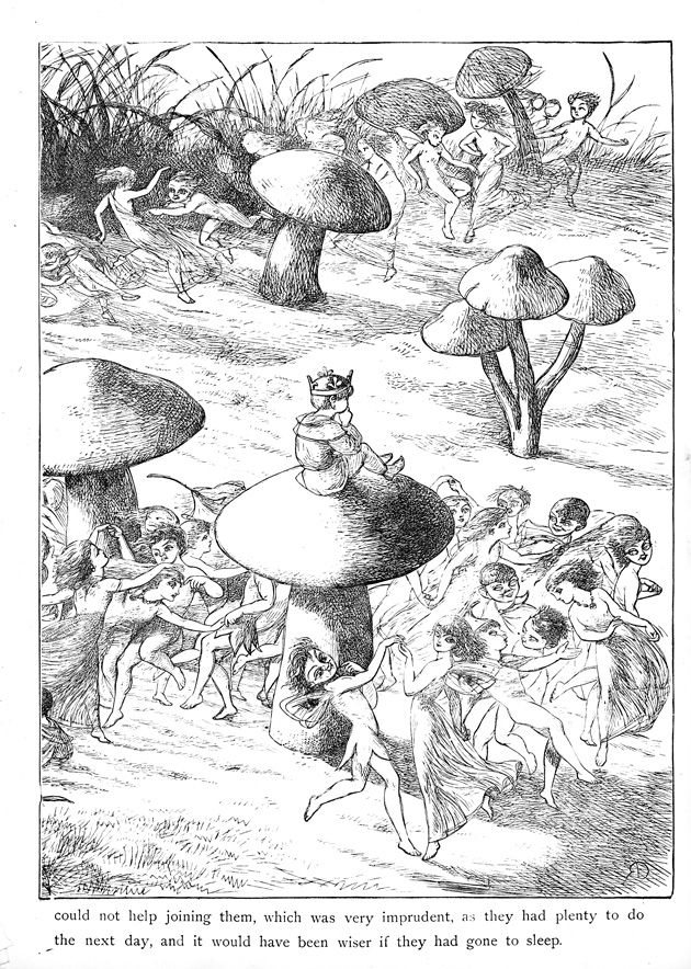 Princess Nobody : a tale of fairy land, page 31, by Andrew Lang illustrated by Richard Doyle plates printed by Edmund Evans